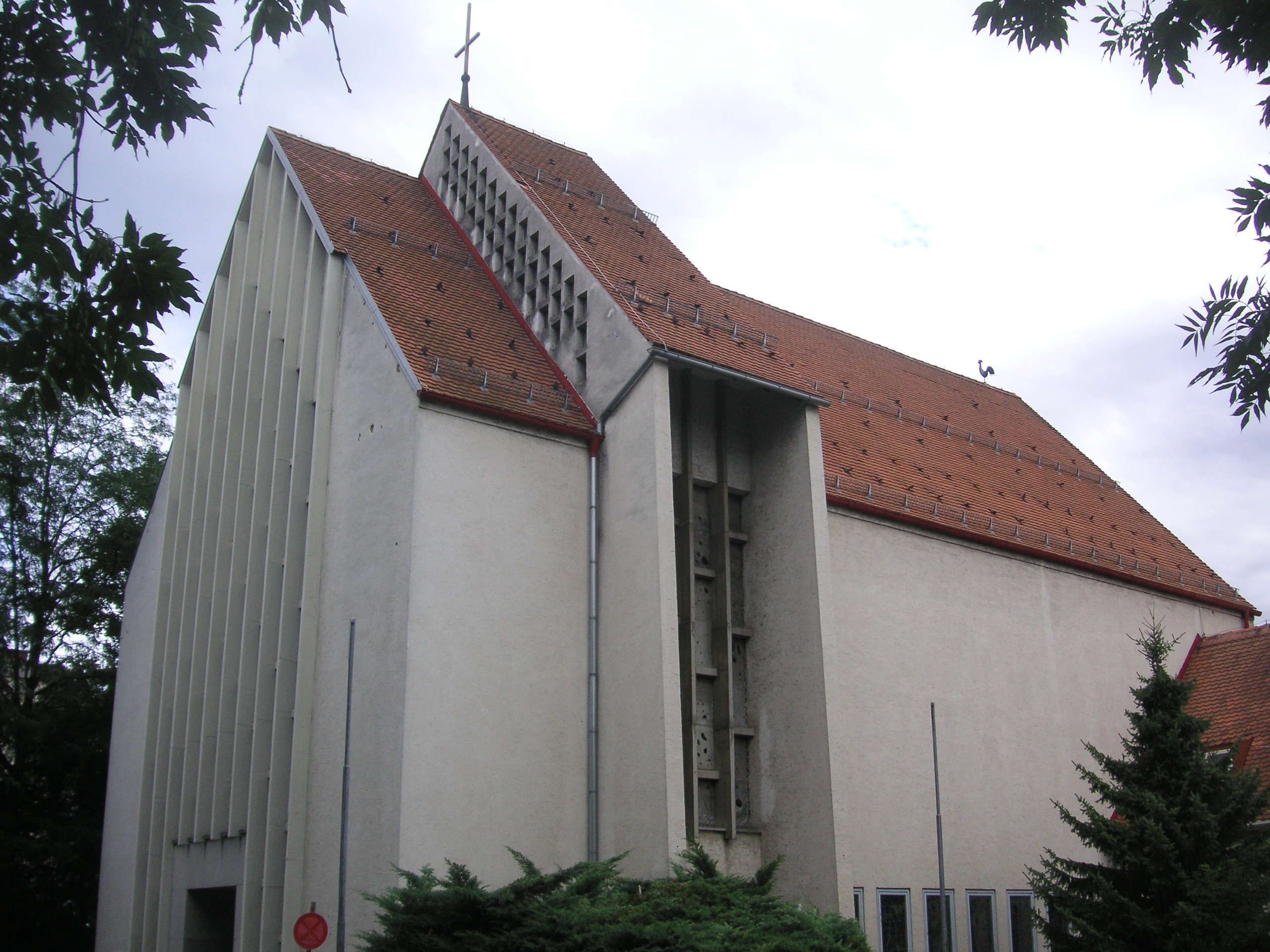 The Christkönigskirche in Graz-Wetzelsdorf, Styria, Austria